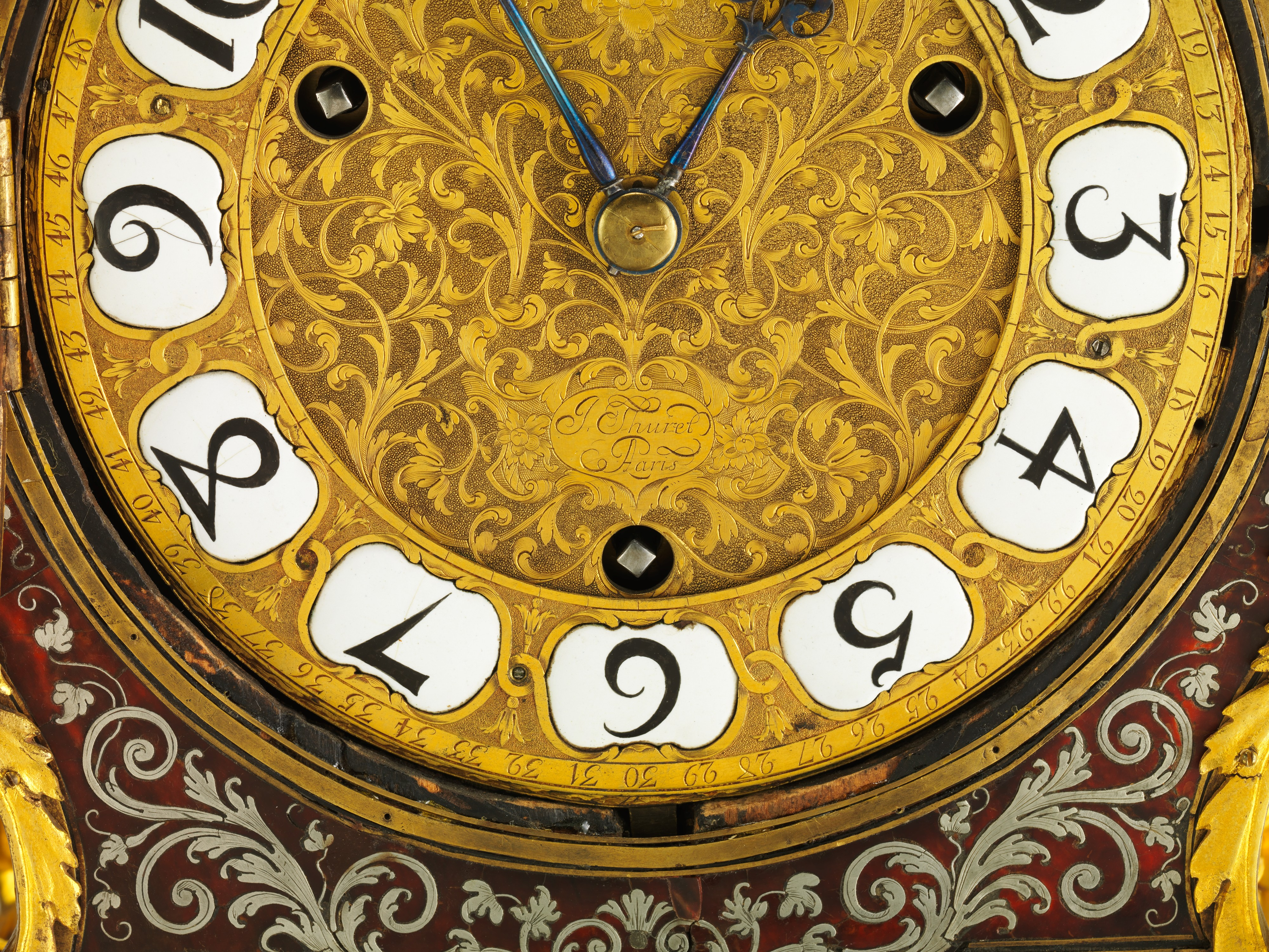 French, Paris; Clock with pedestal; Horology